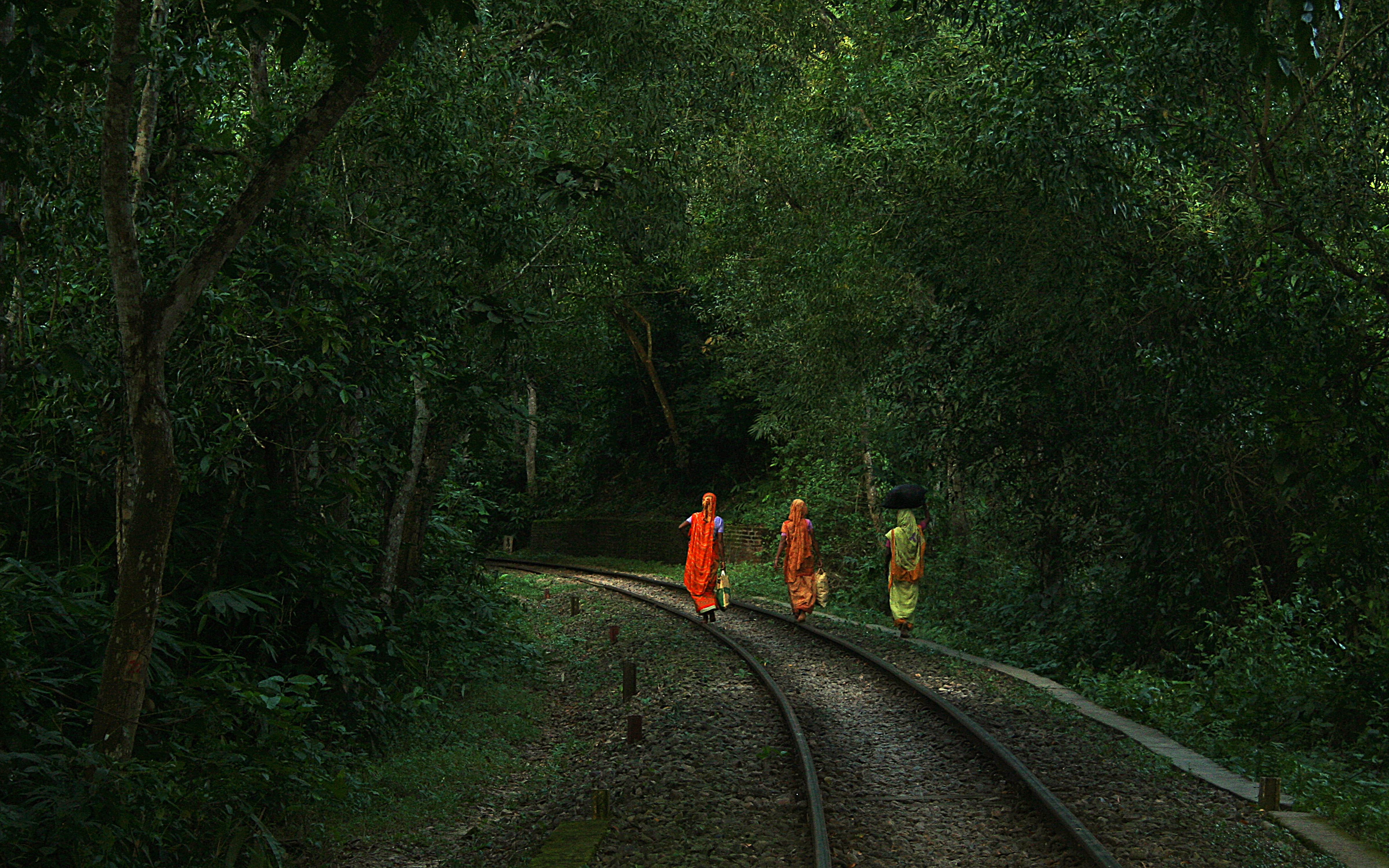 Lawachara National Park is a major national park and nature reserve in Bangladesh.